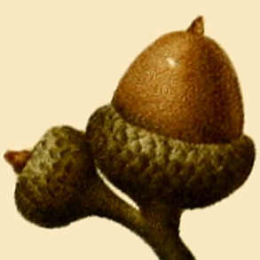 Plate from Histoire des arbres forestiers de l'Amérique septentrionale: Quercus pumila - running oak.Original caption: running oak. Running Oak.